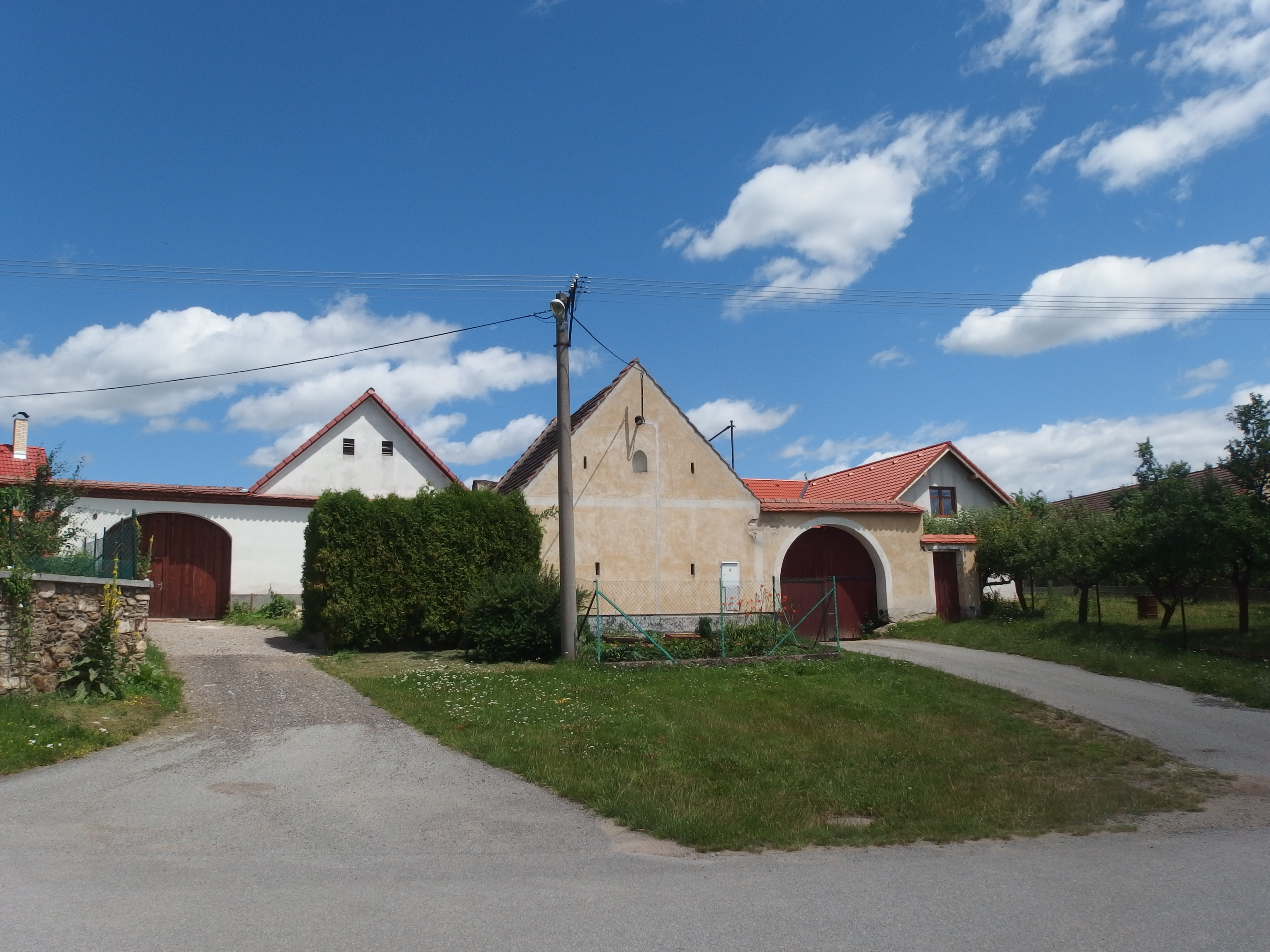 Temelín, České Budějovice District, Czechia, part Zvěrkovice.